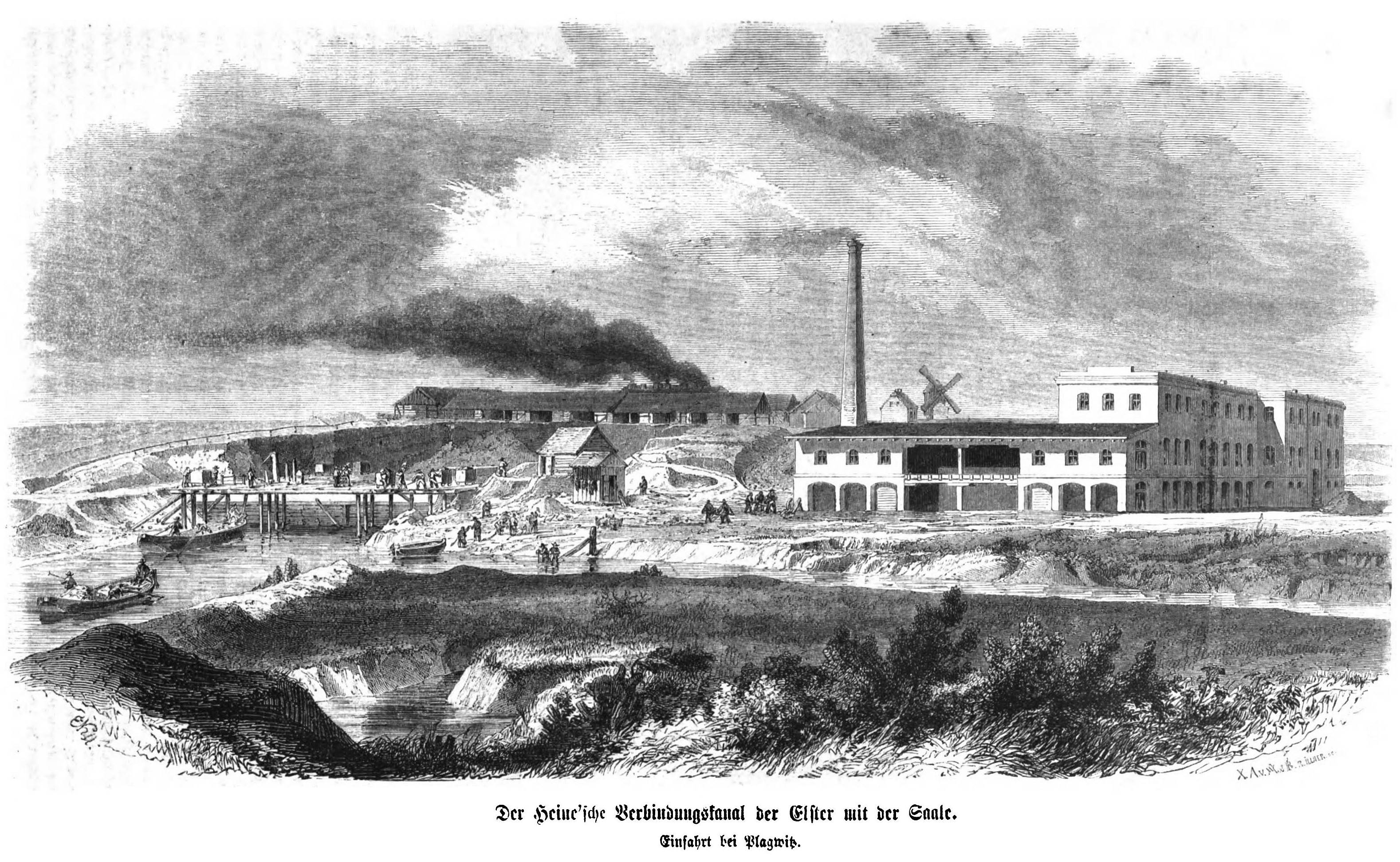 caption: "Der Heine’sche Verbindungskanal der Elster mit der Saale. Einfahrt bei Plagwitz."